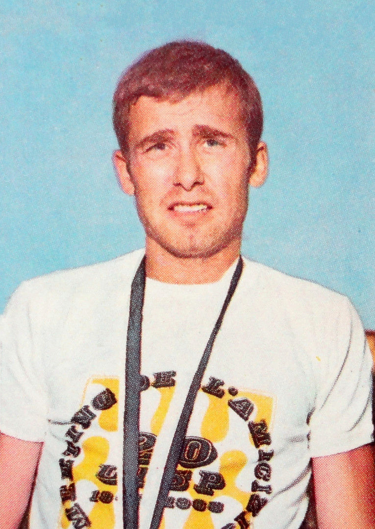 CAMPIONI DELLO SPORT 1969/70-n.46-OTTOZ (ITA)-ATLETICA LEGG.-rec